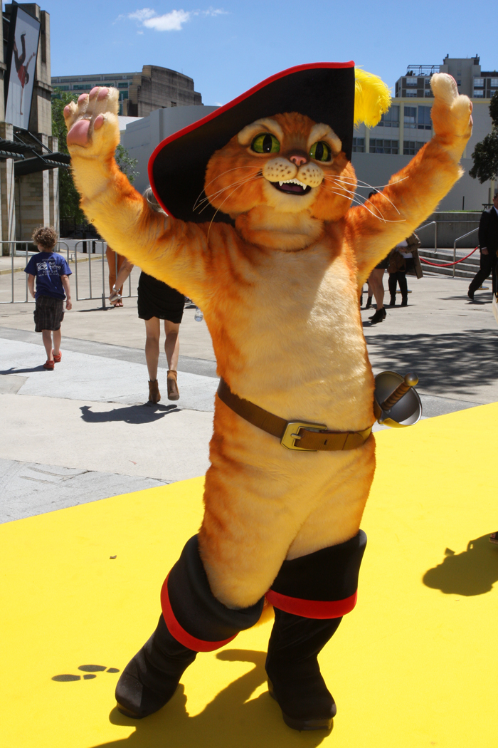 Puss in Boots mascot at Puss in Boots premiere at Moore Park, Fox Studios in Sydney, Australia.